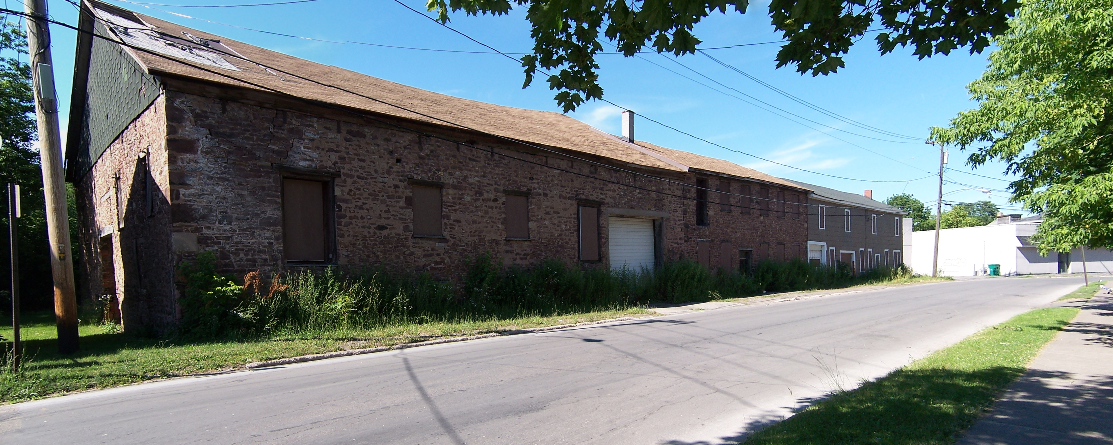 Whiteside in Brockport, New York. These buildings were built in 1850–52 and are listed on the National Register of Historic Places. This panorama was stitched from three separate photographs by "hugin", then cropped.